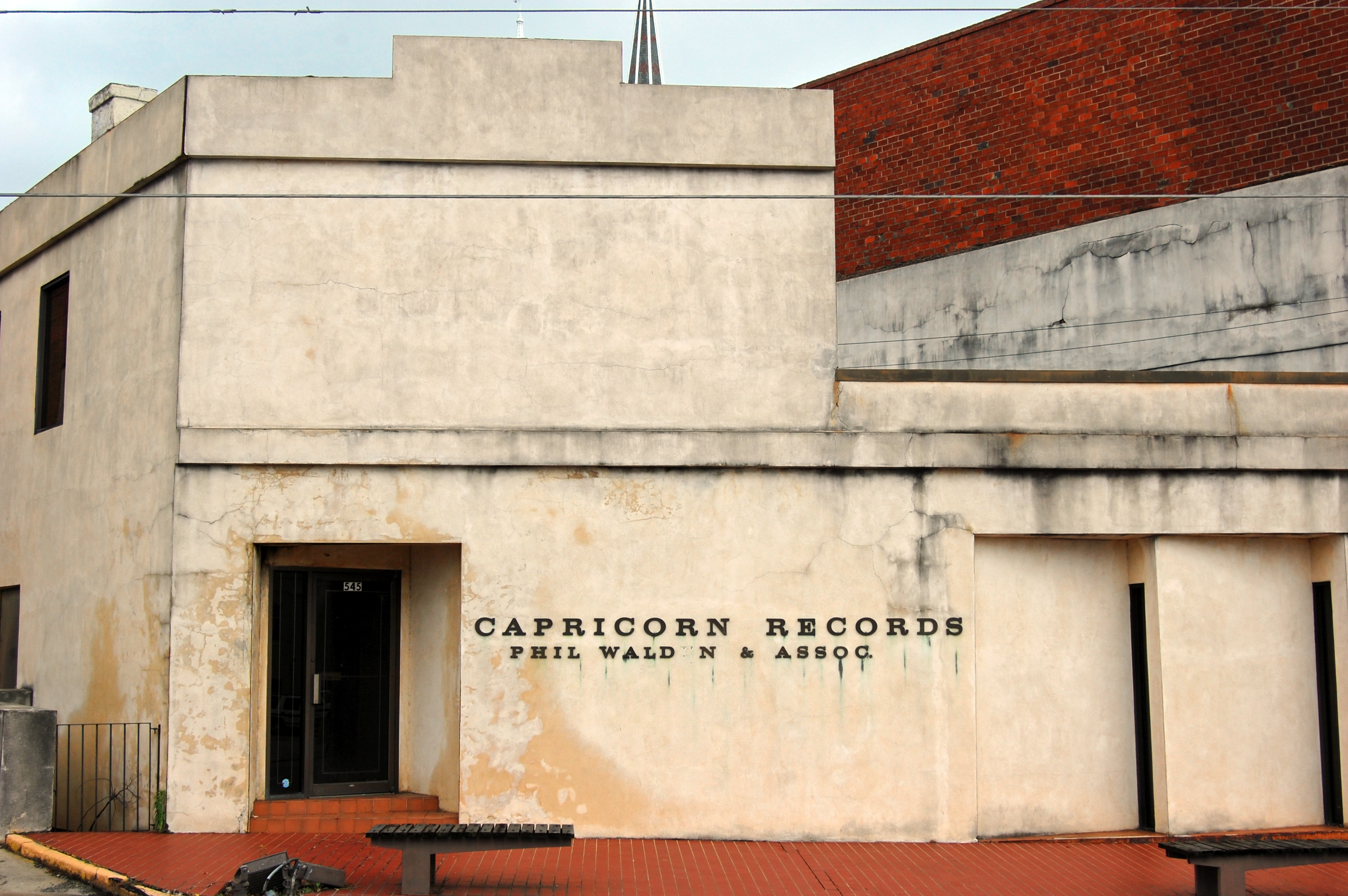 Capricorn Records, Phil Walden & Assoc. headquarters